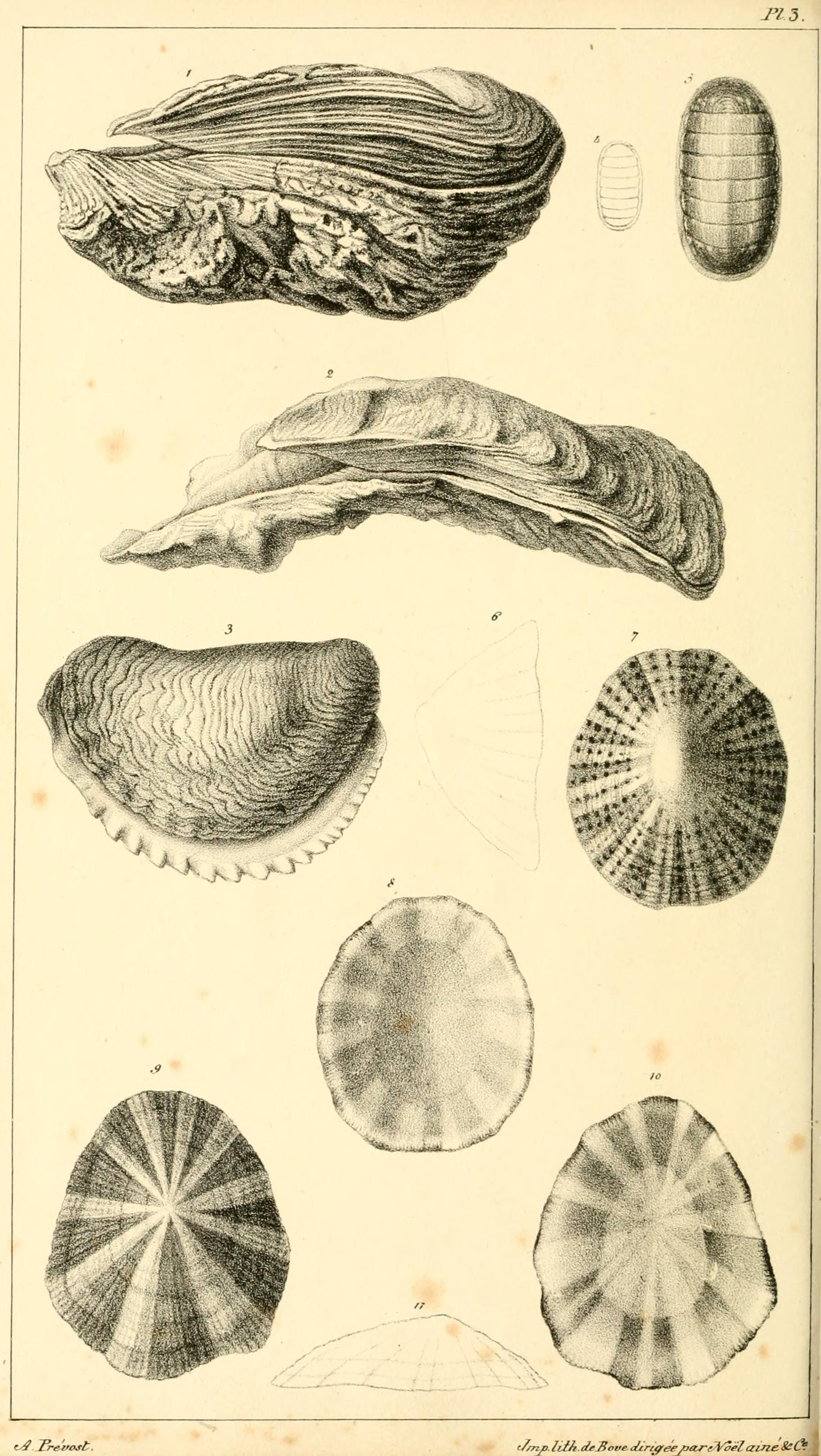 Plate 3